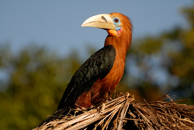 Rufous-necked Hornbill (Aceros nipalensis), photographed at Namdapha National Park from Arunachal Pradesh